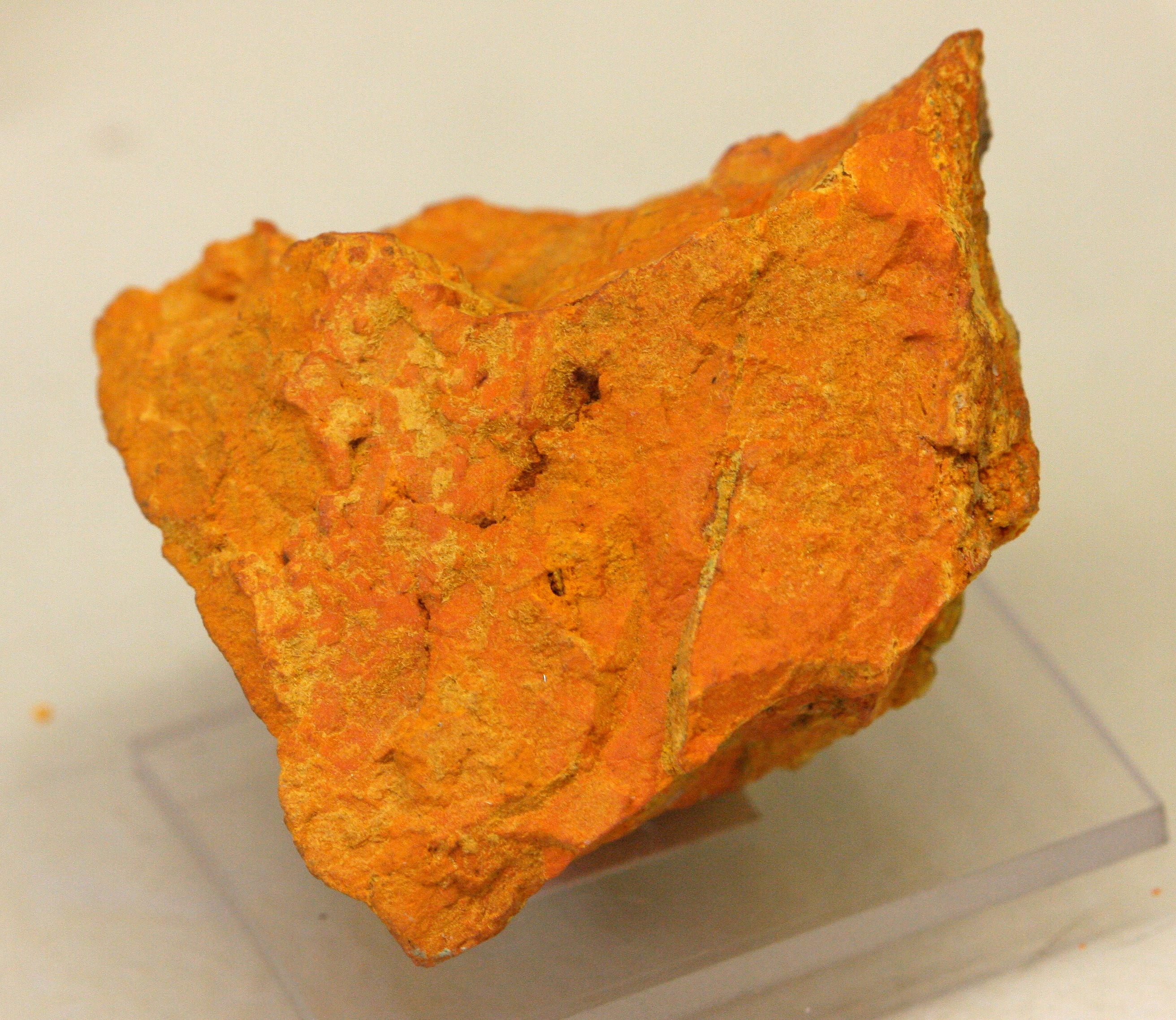 Curite - Locality: Katanga, Africa - Exposed in the Mineralogical Museum, Bonn, Germany